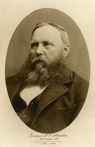 Mads Christoffersen Strandskov (1823-1895), Danish farmer and politician, MP